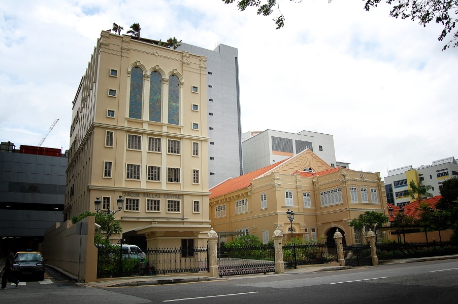 Jacob Ballas Centre (left) and Maghain Aboth Synagogue in Singapore.